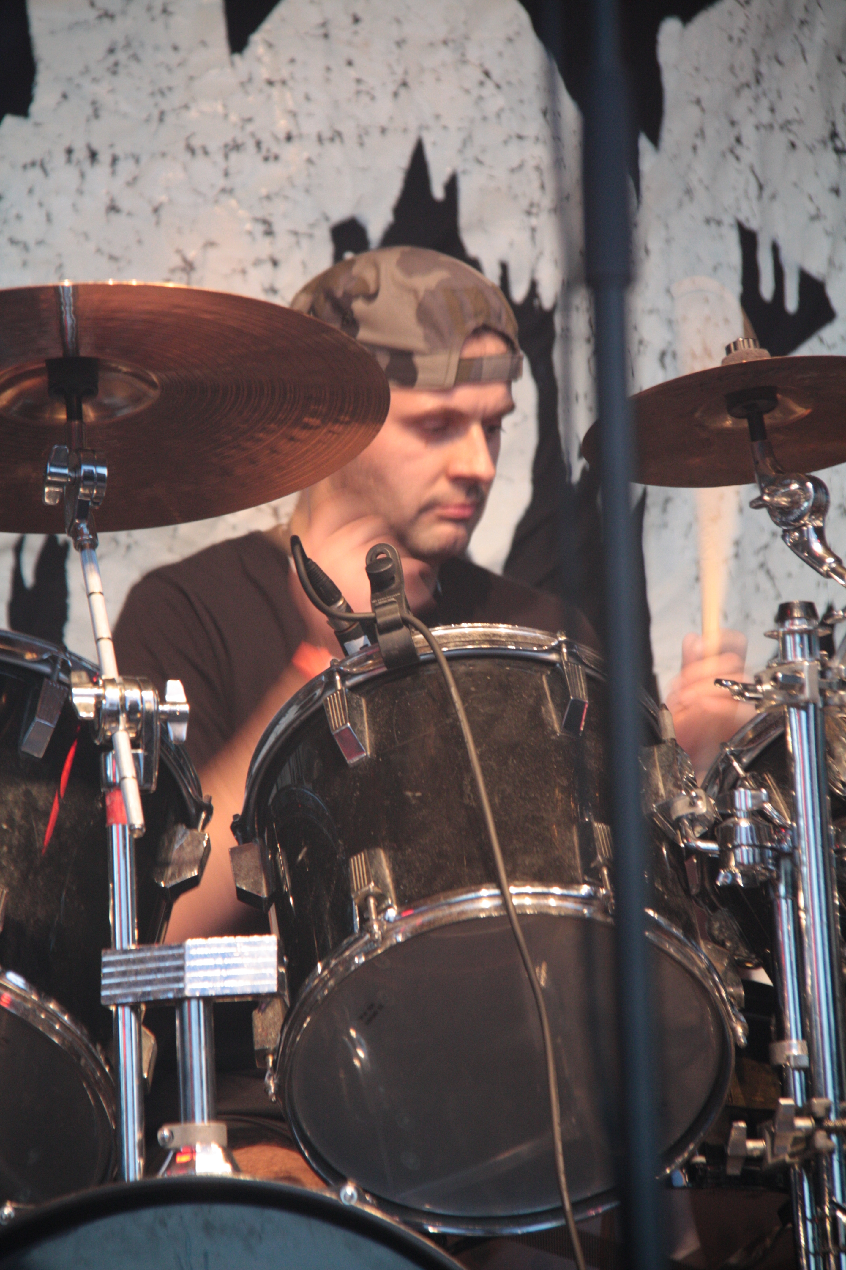 Dead Head on Occultfest 2010, Saturday september 4th